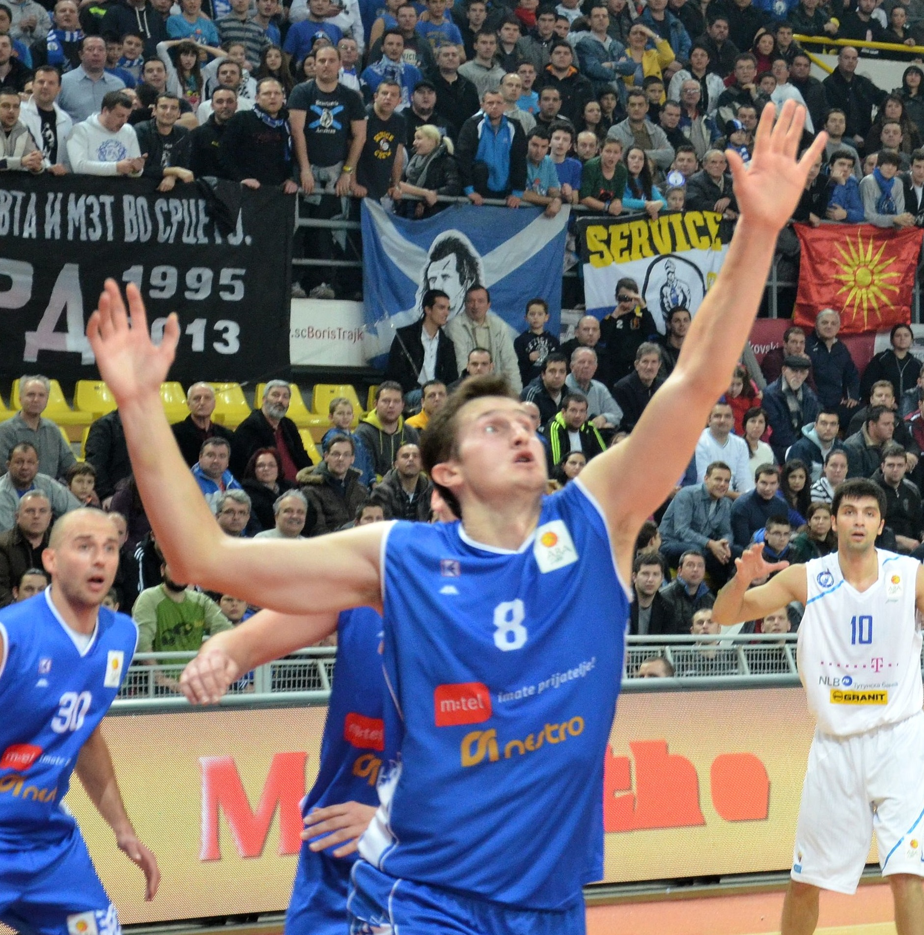 Јорович